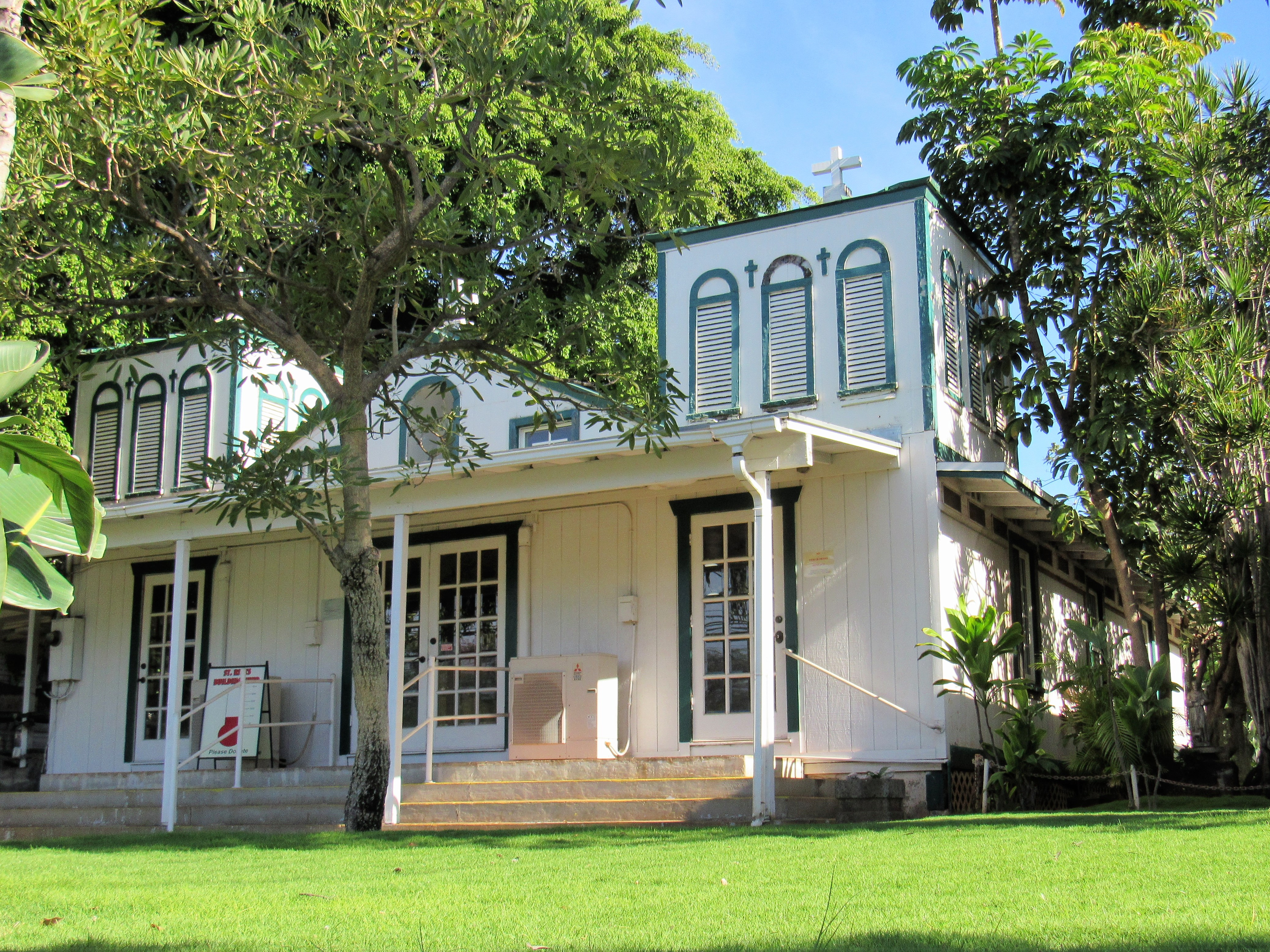 Saint Rita Catholic Church in Nānākuli, Hawaii.